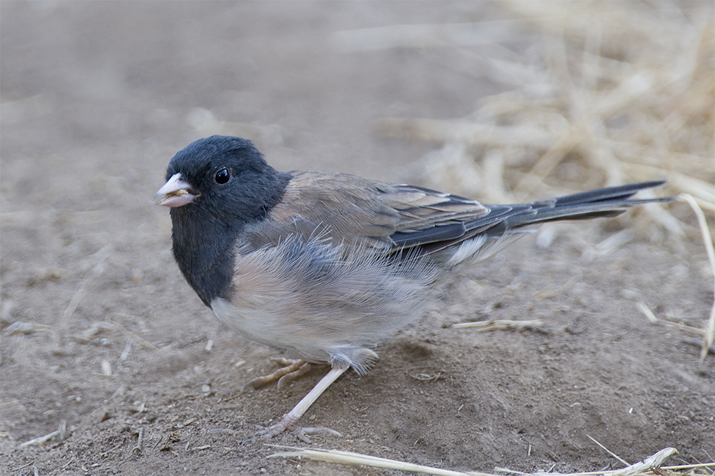 An adult male Dark-eyed Junco, of the oreganus subspecies group called the Oregon Junco.